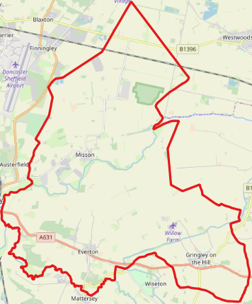 Map of the Everton ward of Bassetlaw. This map may be incomplete, and may contain errors. Don't rely solely on it for navigation.